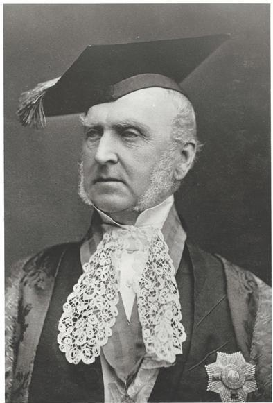 Portrait of Redmond Barry, Australian jurist